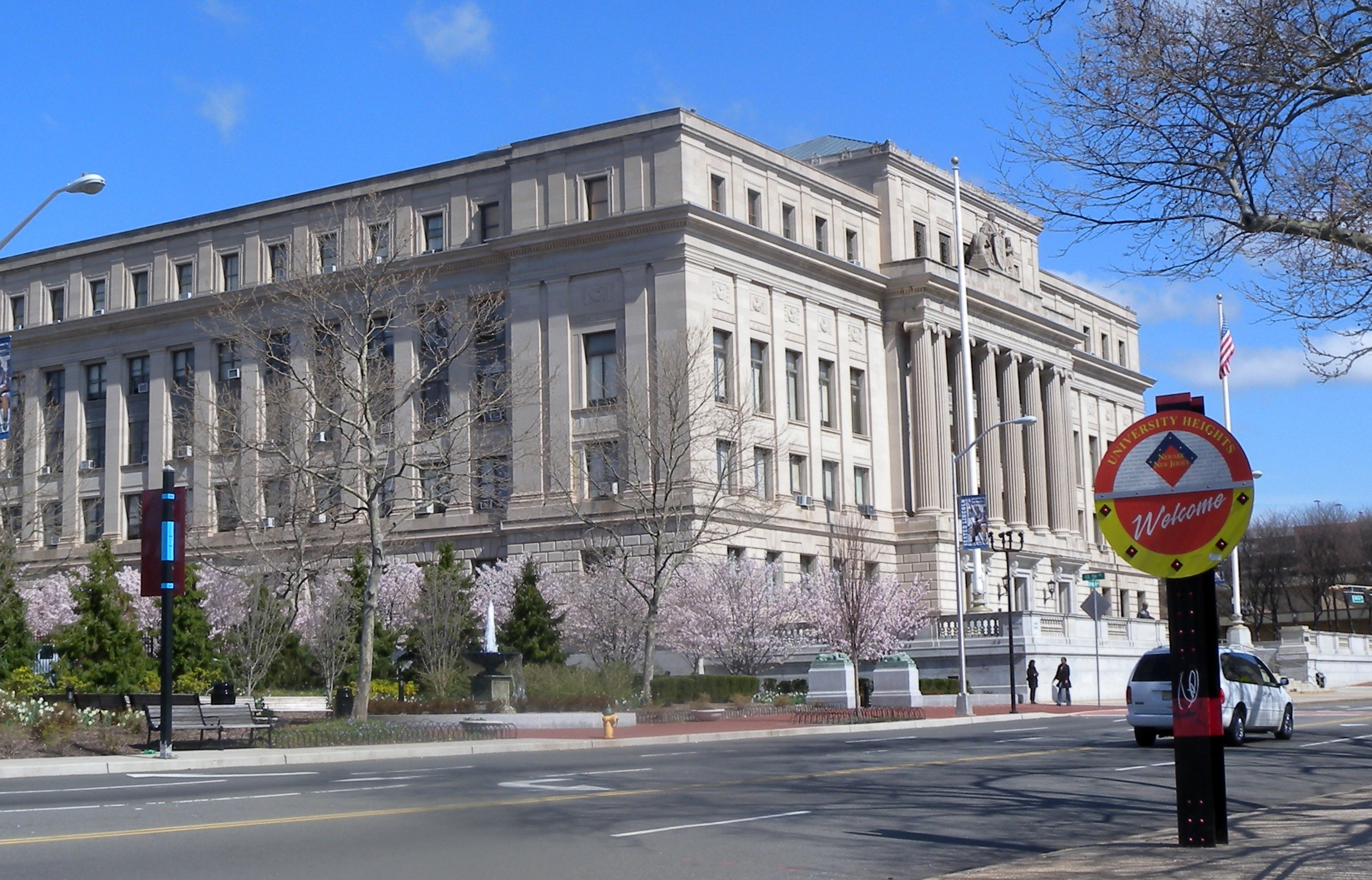 Looking north at Hall of Records on a sunny morning.